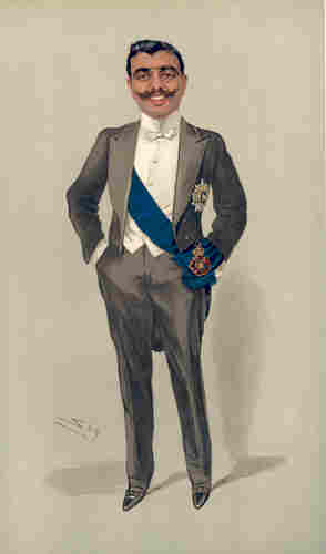 Caricature of Sultan Mahommed Shah, Aga Khan III (1877-1957).